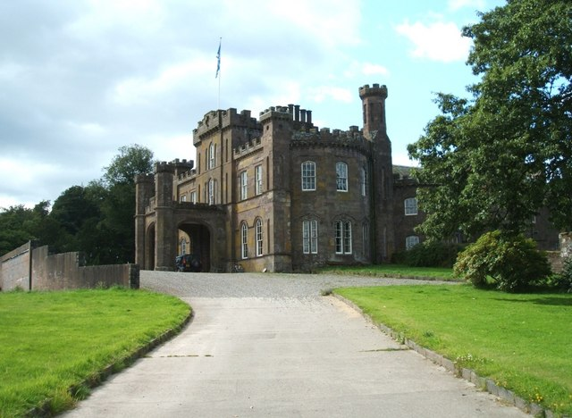 Strathallan Castle Looking up slight rise, towards front entrance.